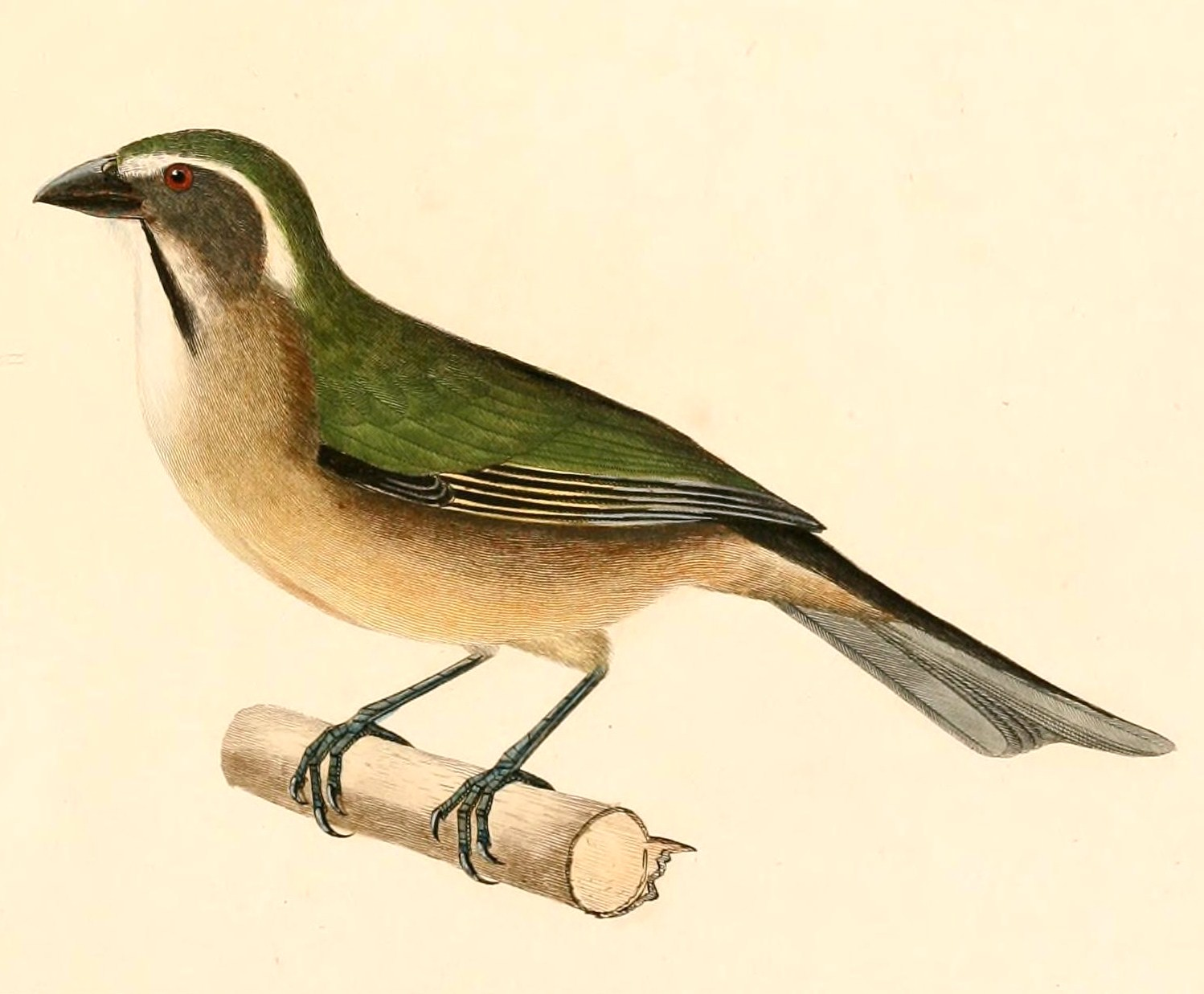 « Saltator similis » = Saltator similis (Green-winged Saltator)